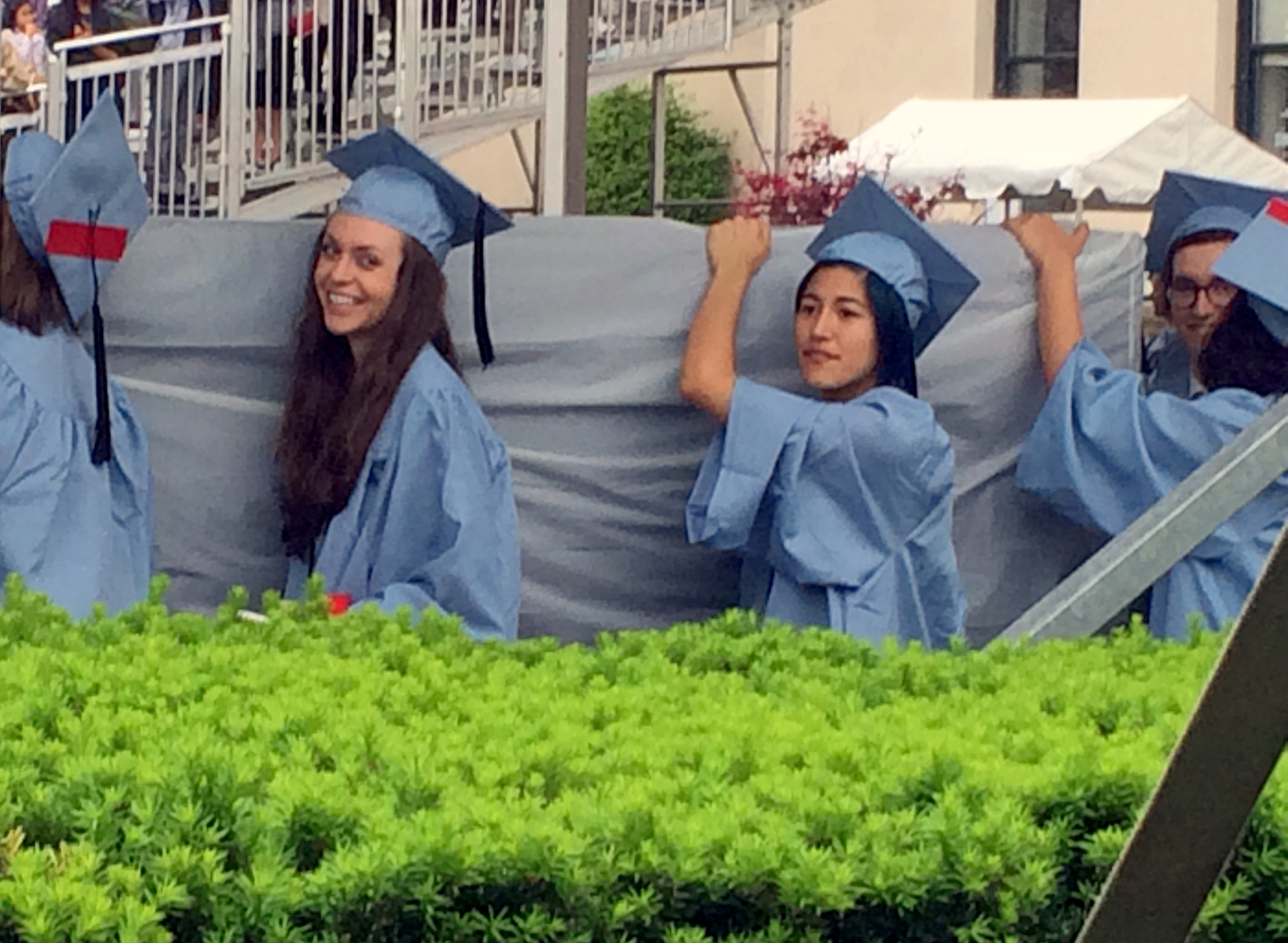 Emma Sulkowicz (centre-right) with Mattress Performance at her graduation, Columbia University, 19 May 2015